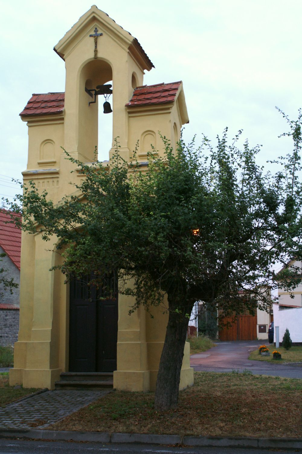 Chapel of Červený Újezd (Czech Republic, Prague-West District)